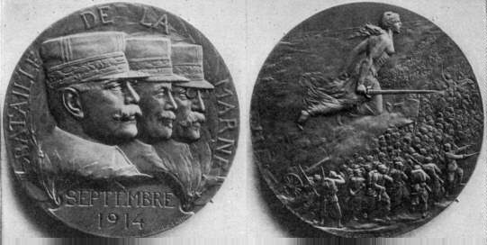 French medal, conmemorative of the 1st Battle of the Marne